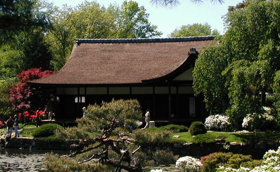 Roof view of Shofuso (The Japanese House and Garden) in Fairmount Park, Philadelphia.